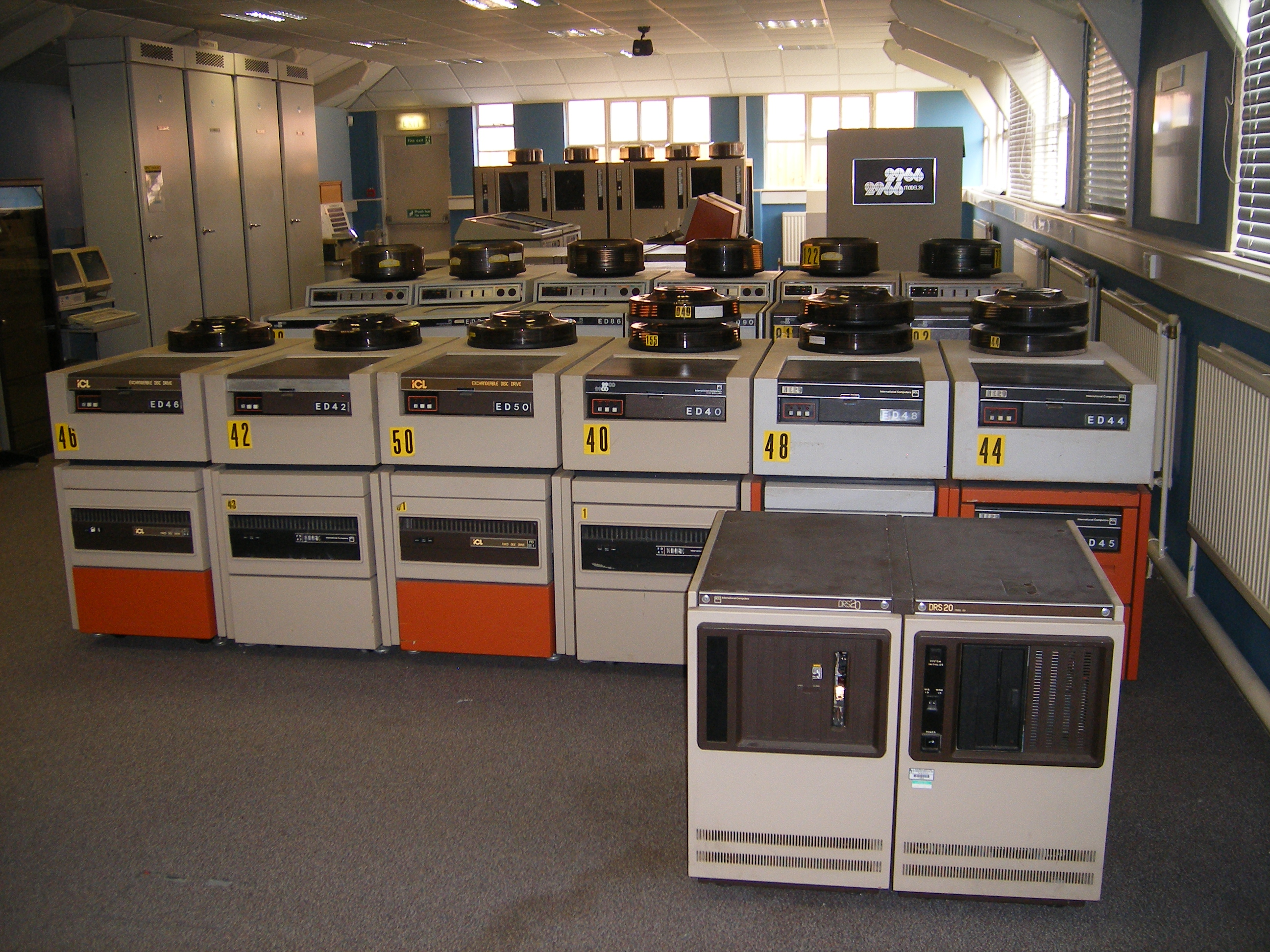 The ICL 2966 system (or part of it!) out of storage and in position at the museum.